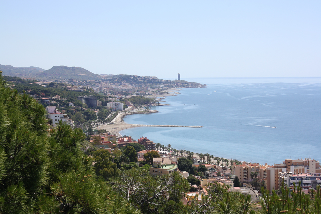 East Malaga, Spain.